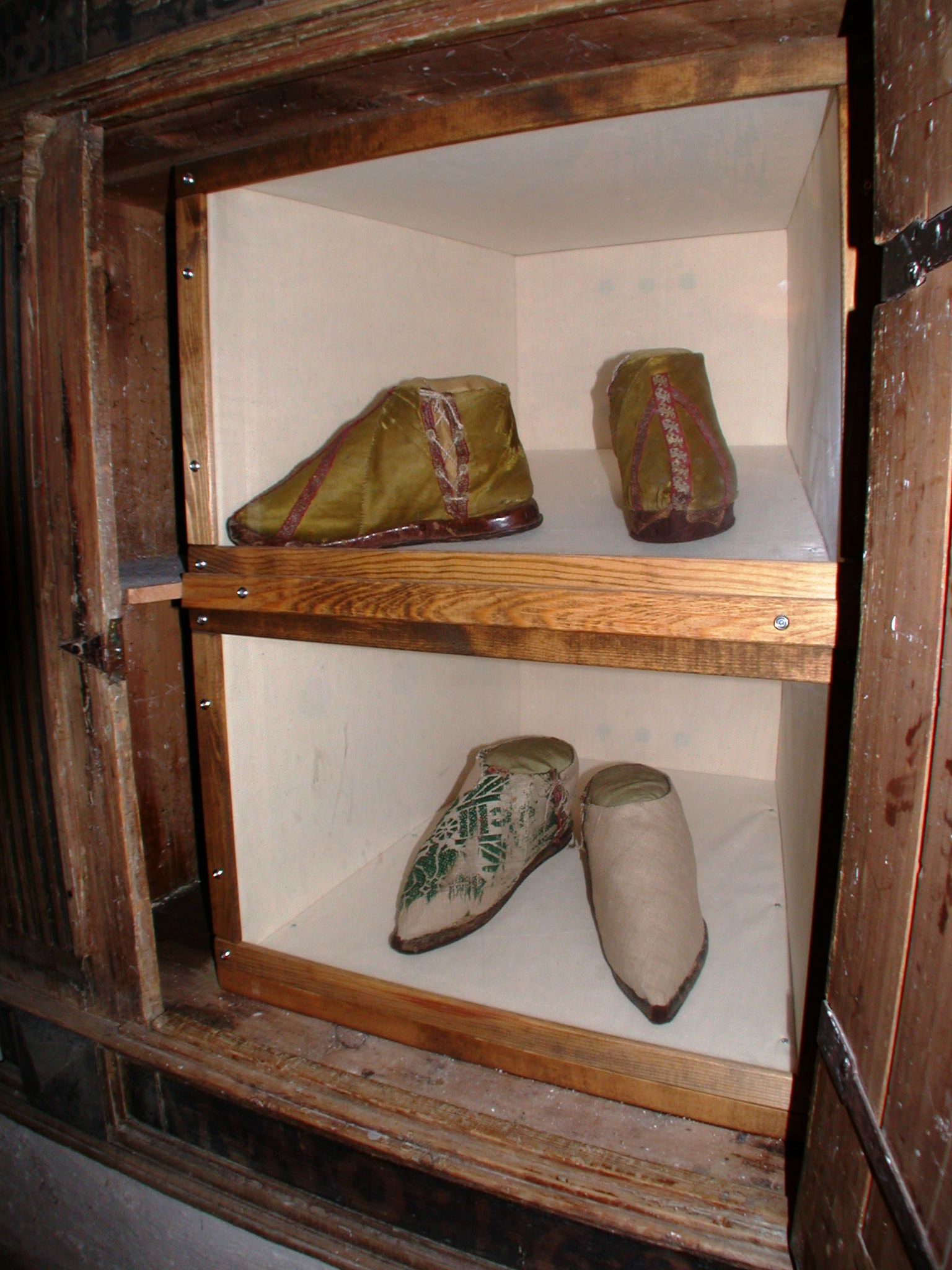 Lithurgical footwear, said to have belonged to bishop Kort Rogge, Strängnäs cathedral, Strängnäs, Sweden. Photo by Riggwelter, March 10, 2007.